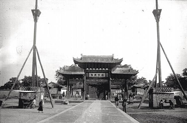 Qing Dynasty Shaanxi Provincial Administration Hall